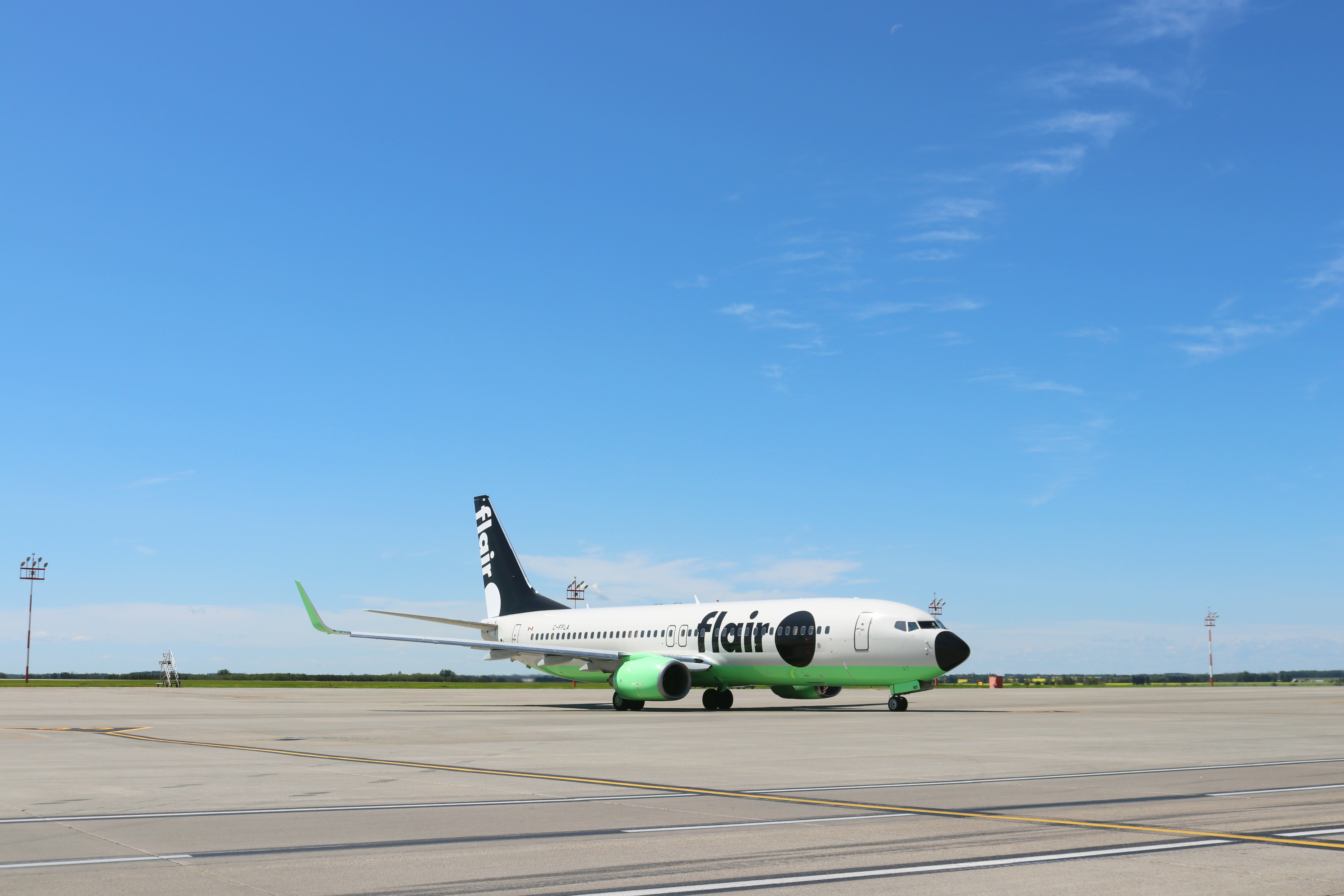 Flair Airline new livery Image September 2019